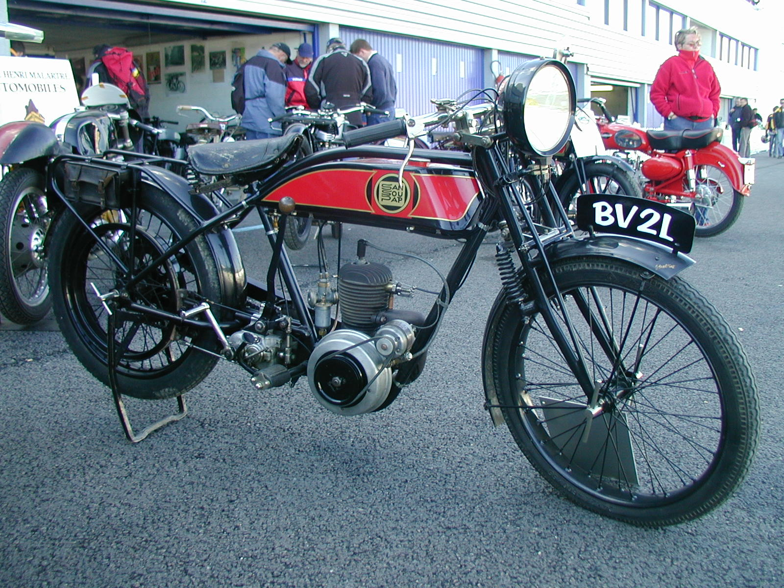 Picture by Gérard Delafond French motorcycle San Sou Pap